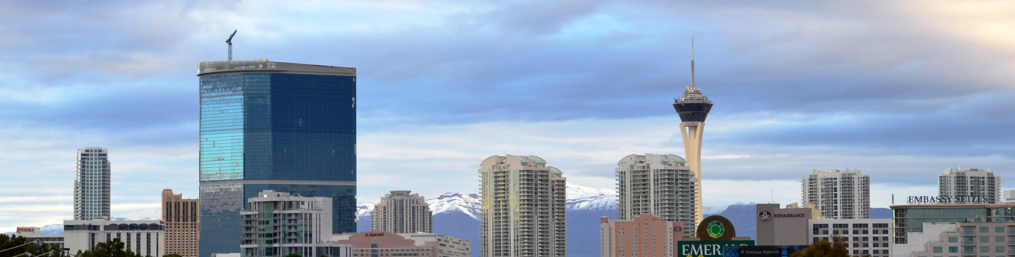 Northeast end of the Las Vegas Strip, as seen from Paradise Road between Sands Avenue and Flamingo Road, facing north. The blue building on left is Fontainebleau Resort Las Vegas (still under construction) and the white tower on right is Stratosphere Las Vegas, with Las Vegas Marriott, Embassy Suites and Turnberry Place residential towers in the foreground. The snow on the mountains (the Sheep Range) was fresh, as it had been raining in the area the day before. Here is another picture (including the Las Vegas Monorail) taken from the same spot.